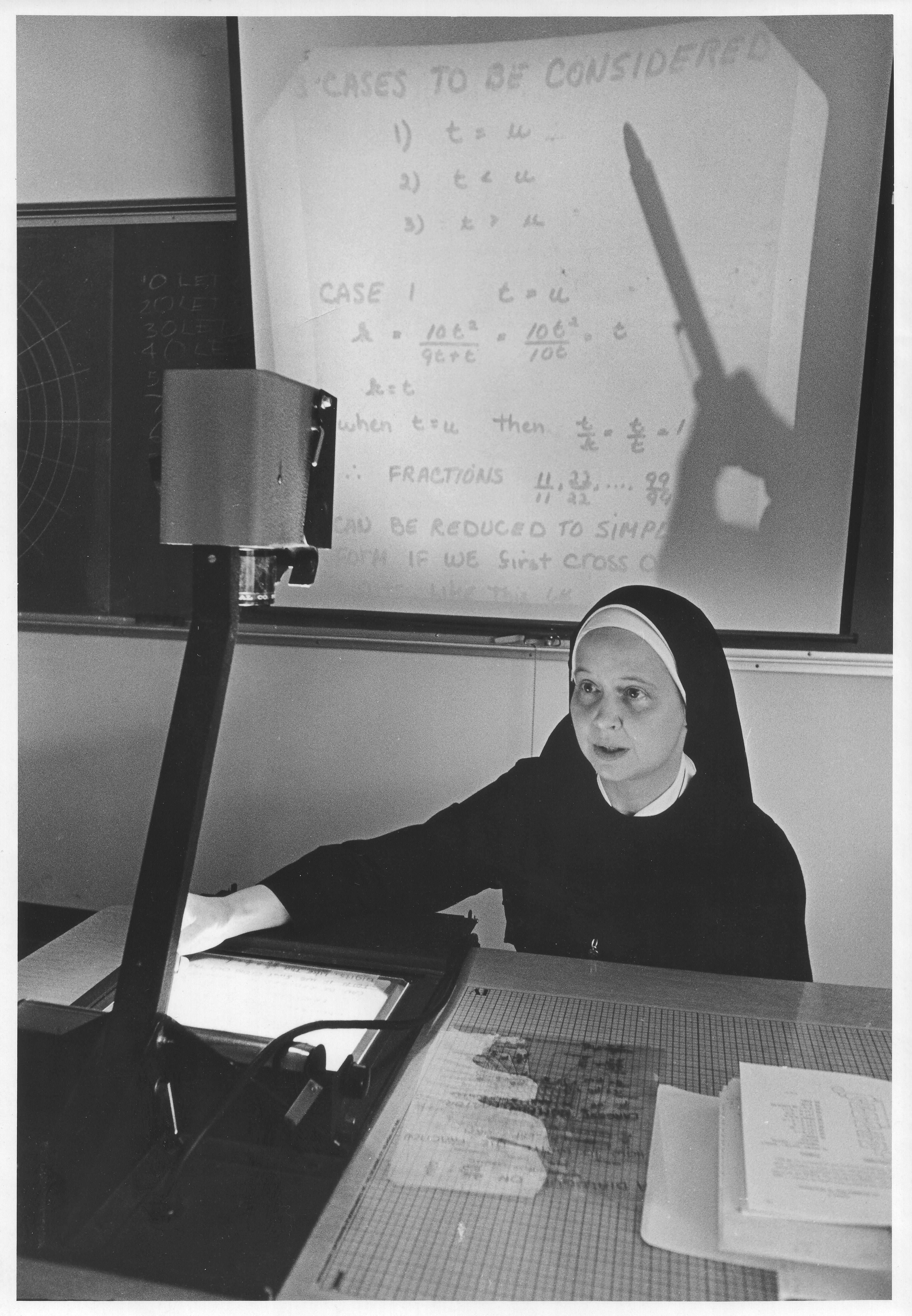 Padberg with Overhead Projector